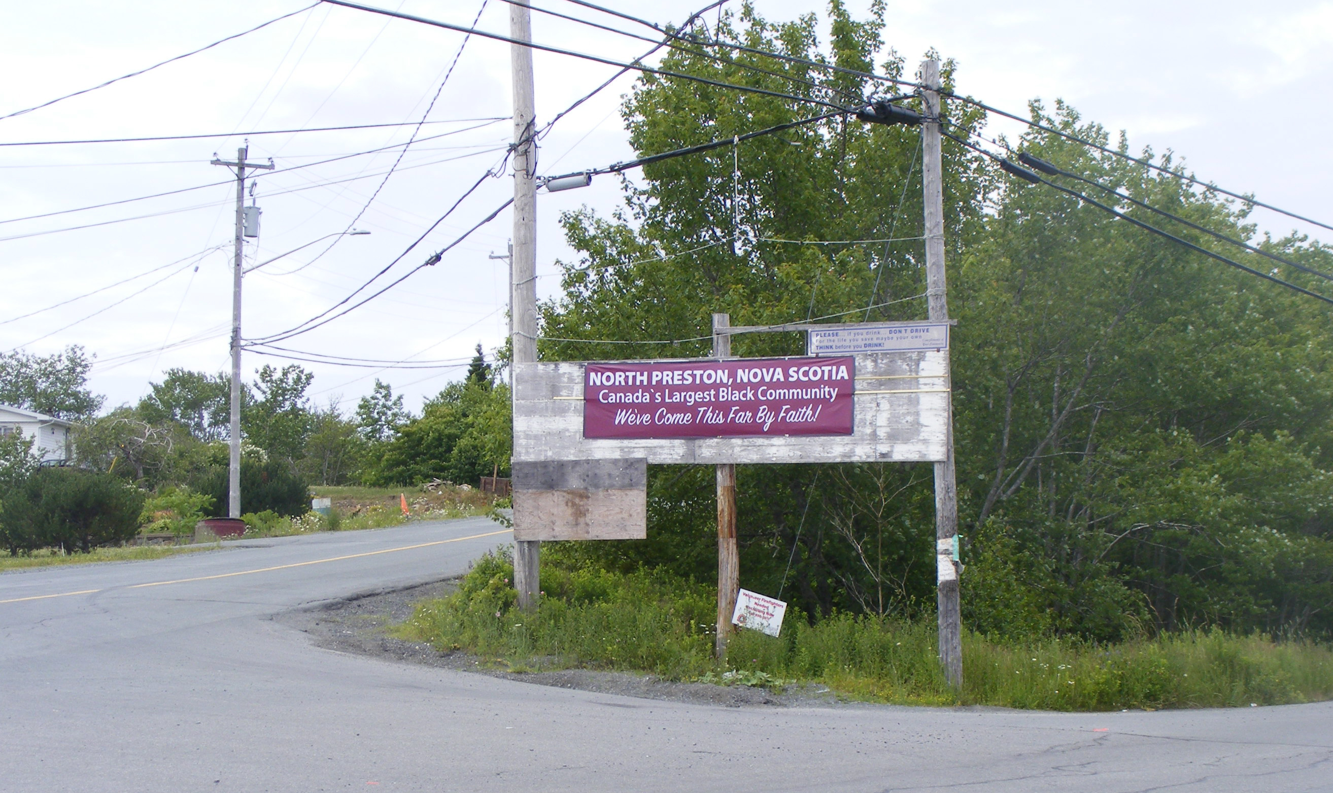 The entrance to North Preston. The sign says "North Preston, Nova Scotia. Canada's largest black community. We've come this far by faith."